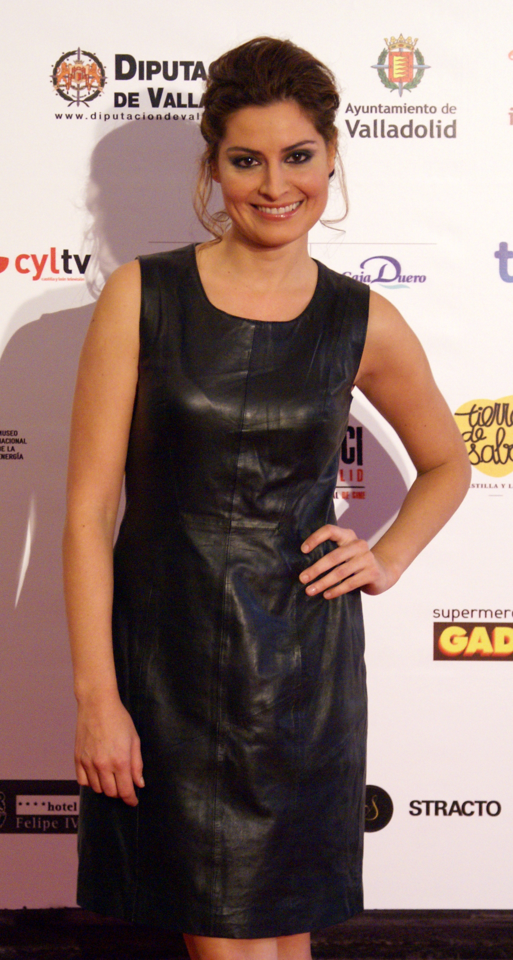 Ledicia Sola, Spanish actress, at the Seminci 2011.